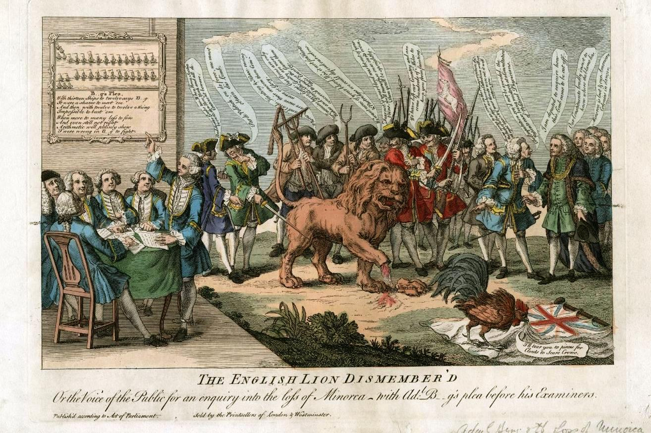 "The English Lion dismembered". Cartoon English after the defeat of the Royal Navy at Menorca.